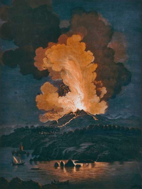 The eruption of Mount Etna in 1766 / Jean-Baptiste Chapuy, after Alessandro d'Anna.